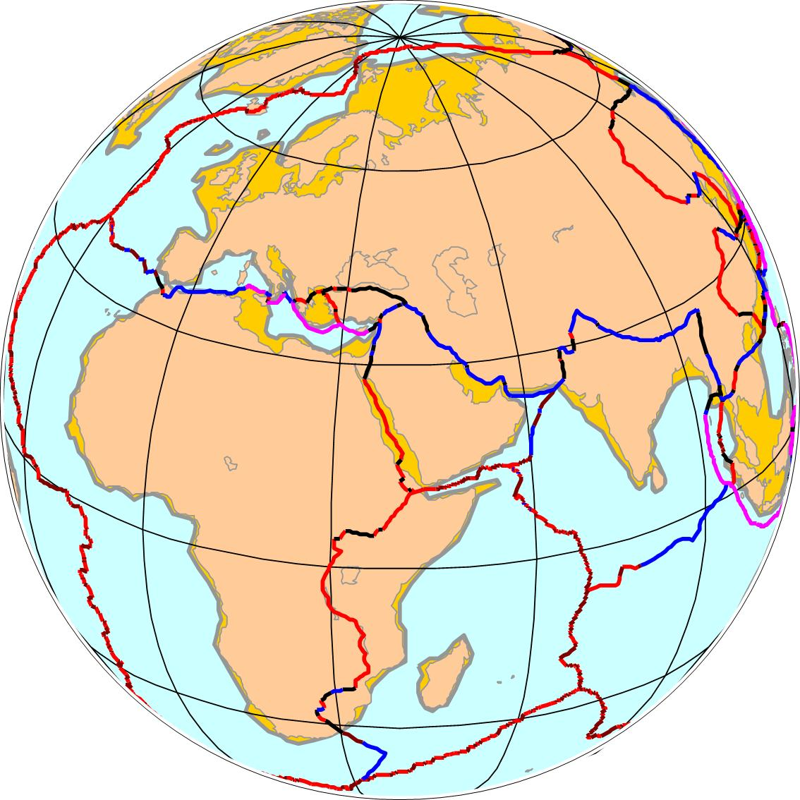 Arabic tectonic plate. Orthogonal projection (as seen from deep space).